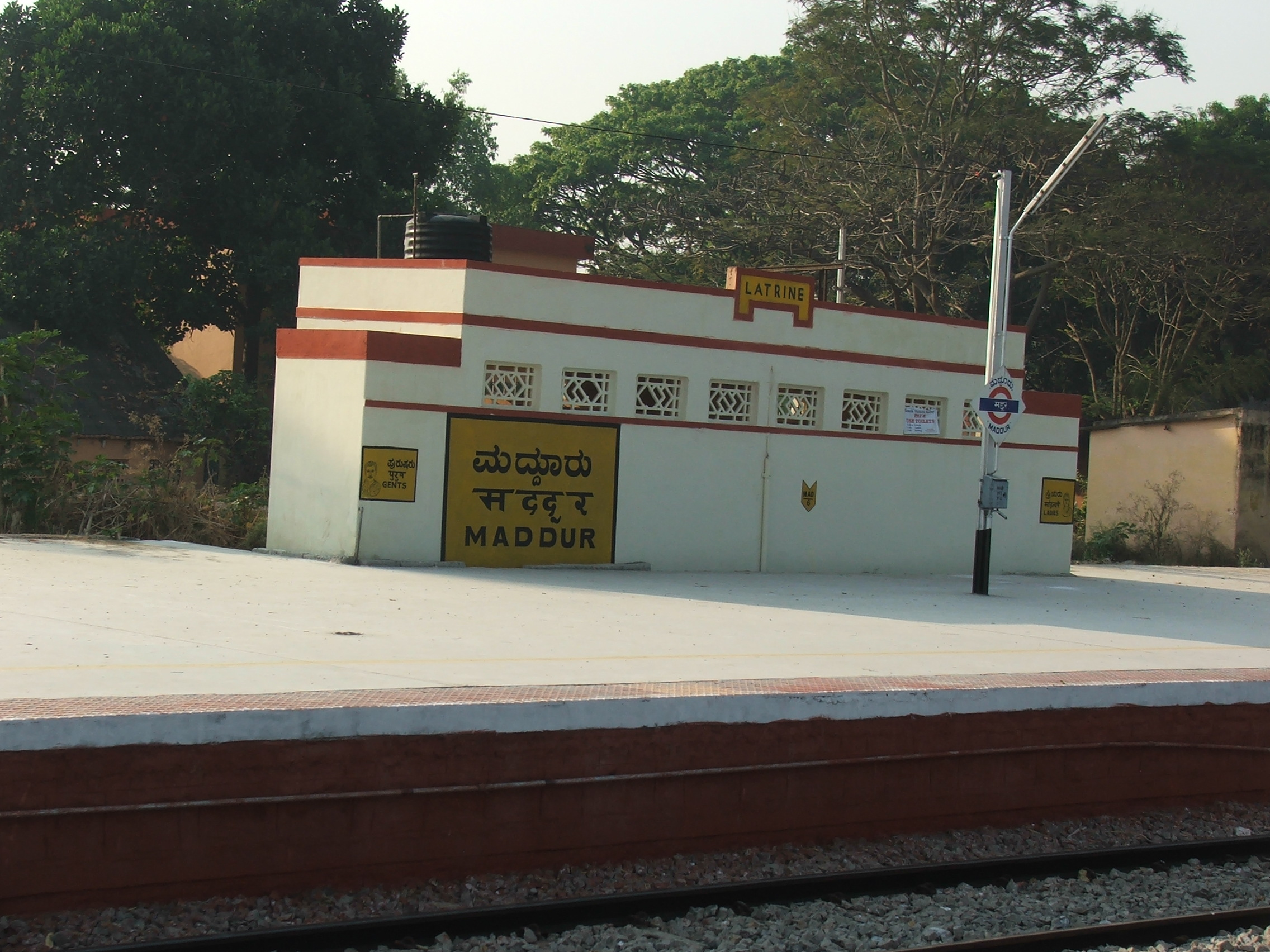 Toilets at train station in Maddur, Karnataka, India.